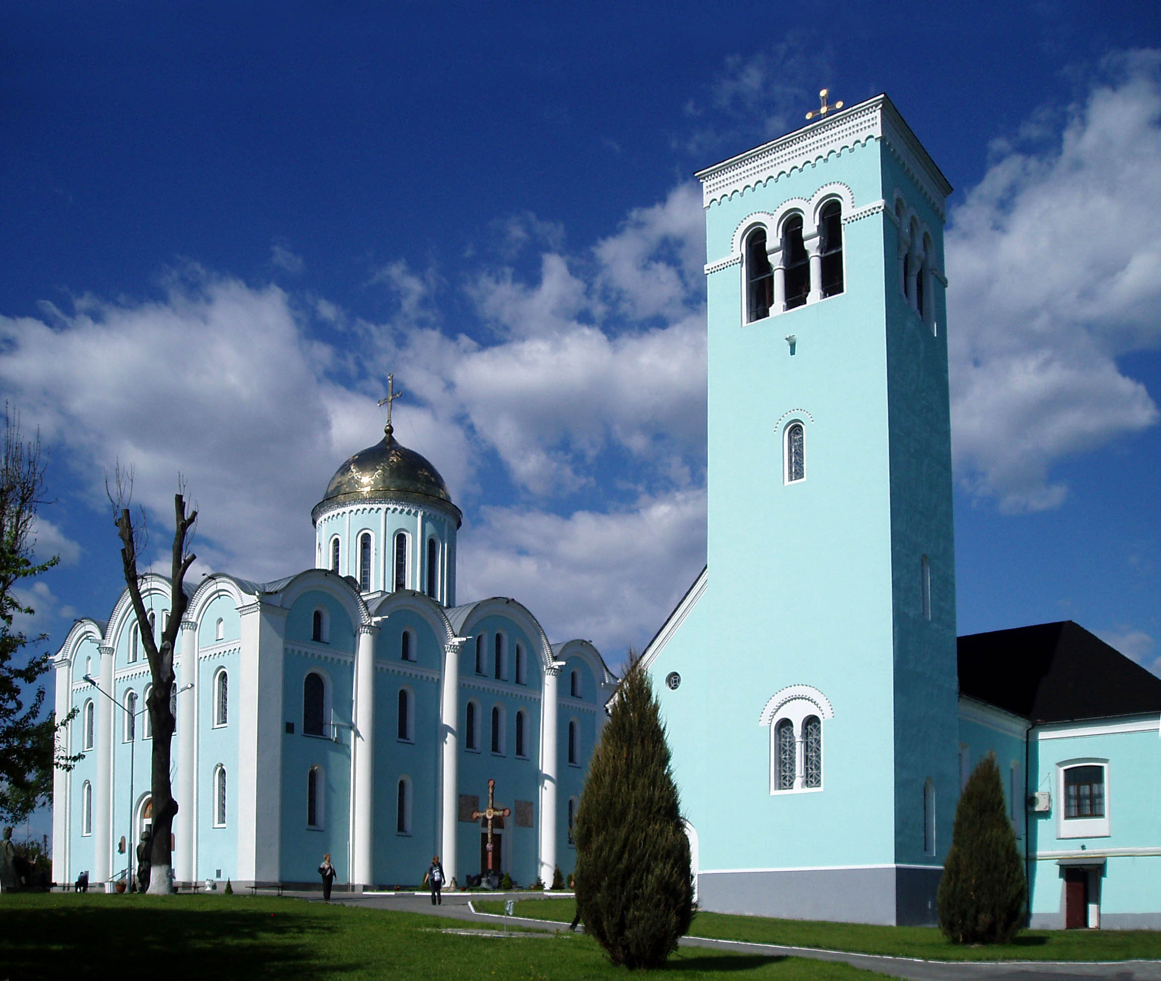 Cathedral of the Dormition of the Theotokos in Volodymyr Volynskyi